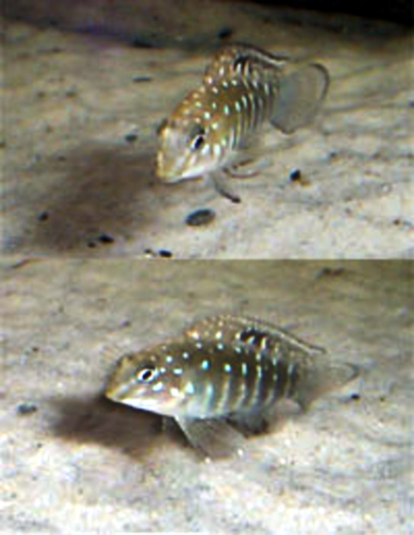 Tanganicodus irsacae Photo: Dr. David Midgley own photo, own fish. Also available here Category:Cichlid images